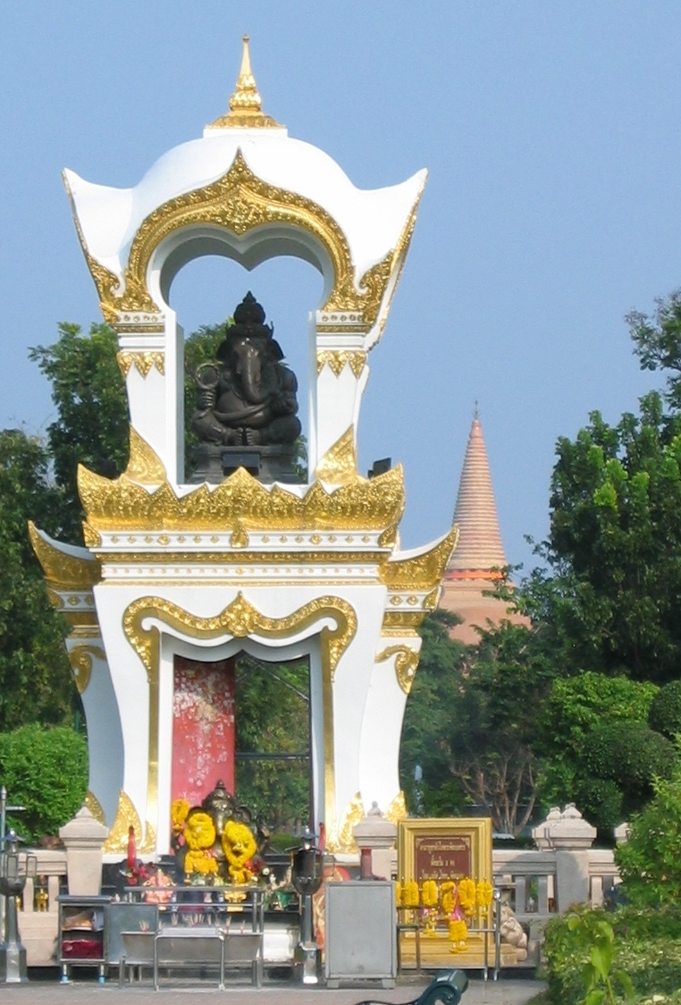 Ganesh memorial, Sanam Chan palace, Thailand (with Phra Pathom Chedi in the background)